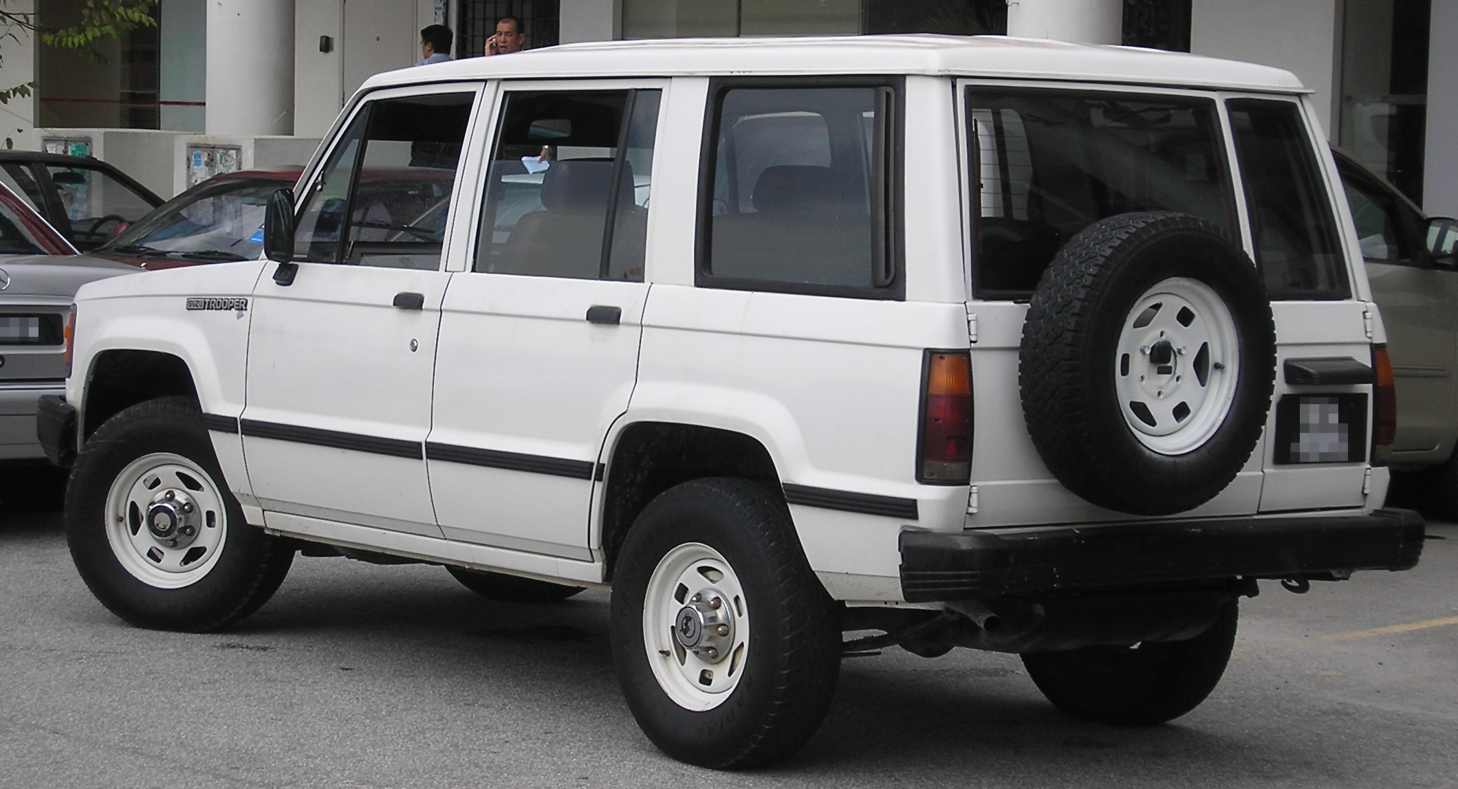 Rear-side shot of a first generation, first facelift Isuzu Trooper, in Serdang, Selangor, Malaysia.